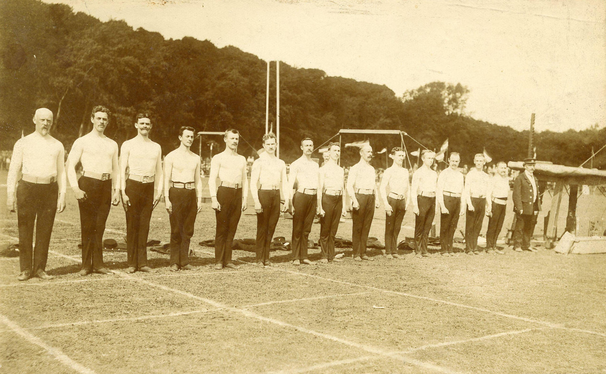 The Dutch gymnastics team at the 1908 Olympic Summer Games in London. 1st from the left Jan de Boer (1859-1941), 2nd from the left Johan Henri Antoine Gerrit Schmitt (1881-1955), third from rigth presumably 3rd from right.